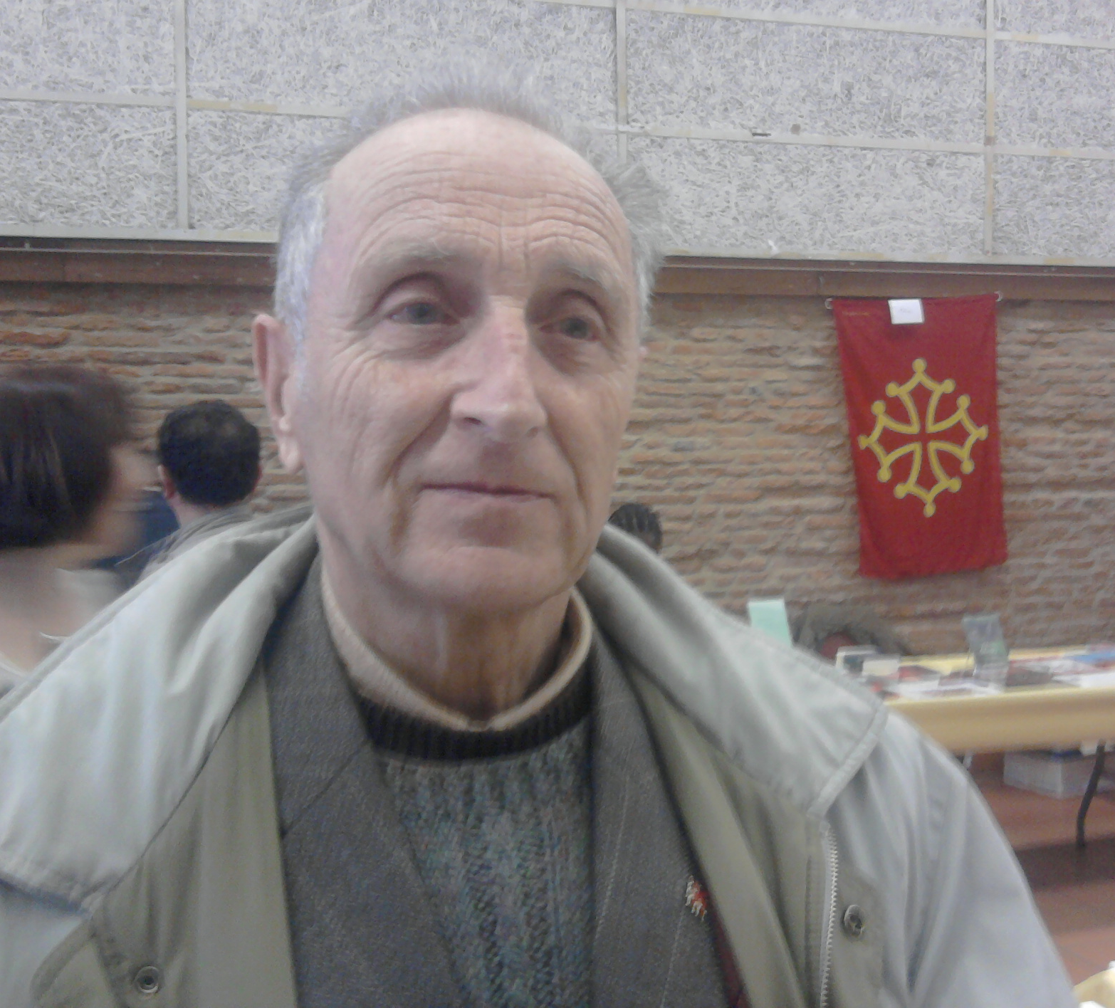 A photograph of Jacme Taupiac, a well known Occitan linguist, taken 27th March 2011